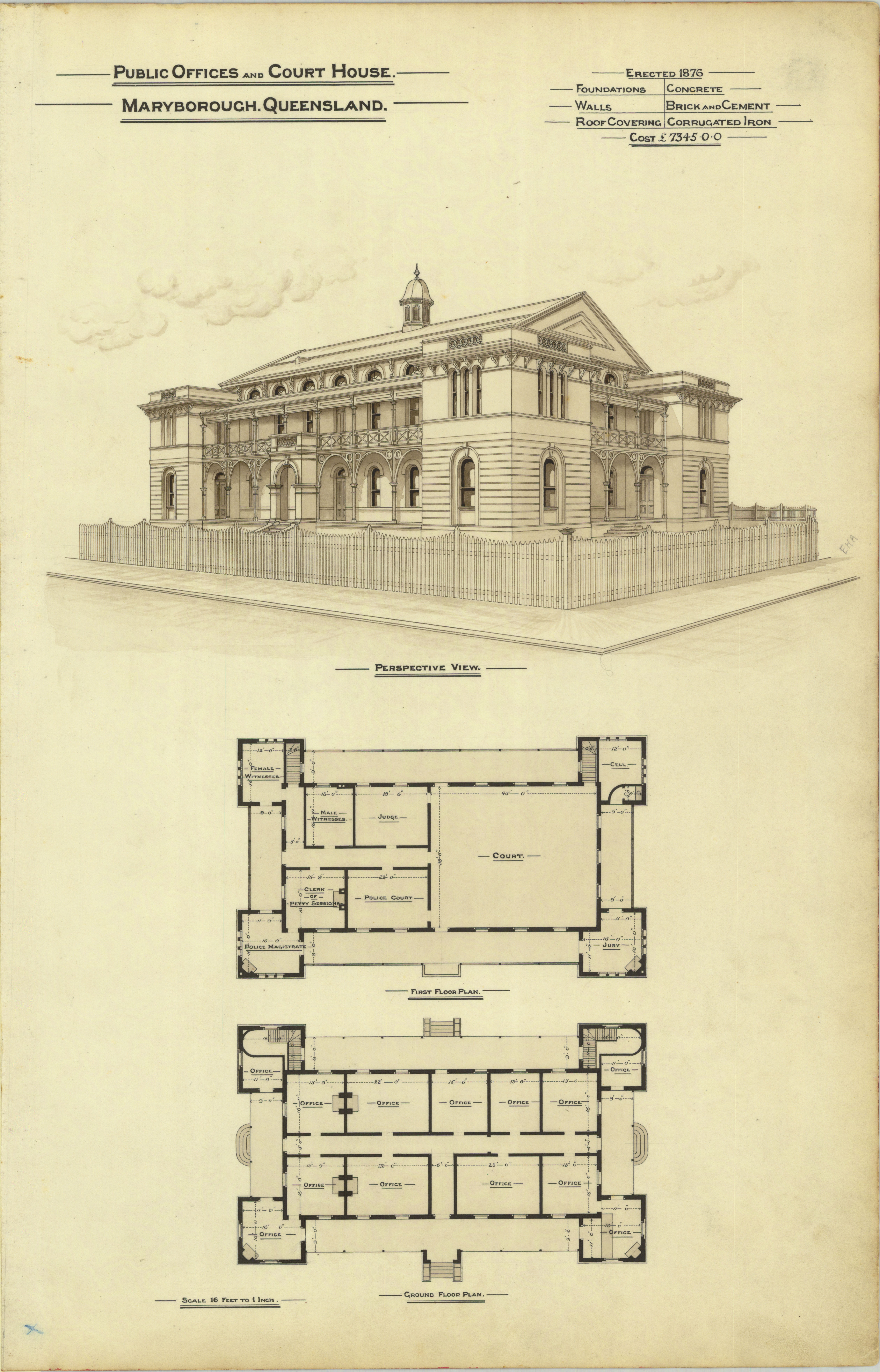 Architectural plan of the Public Offices and Court House, Maryborough, circa 1888